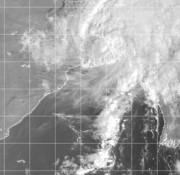 This satellite image shows Tropical Cyclone 2B near its Bangladesh landfall in October of 2000 at 0131 UTC. Despite its disorganized nature, the storm caused 25 deaths from heavy flooding.